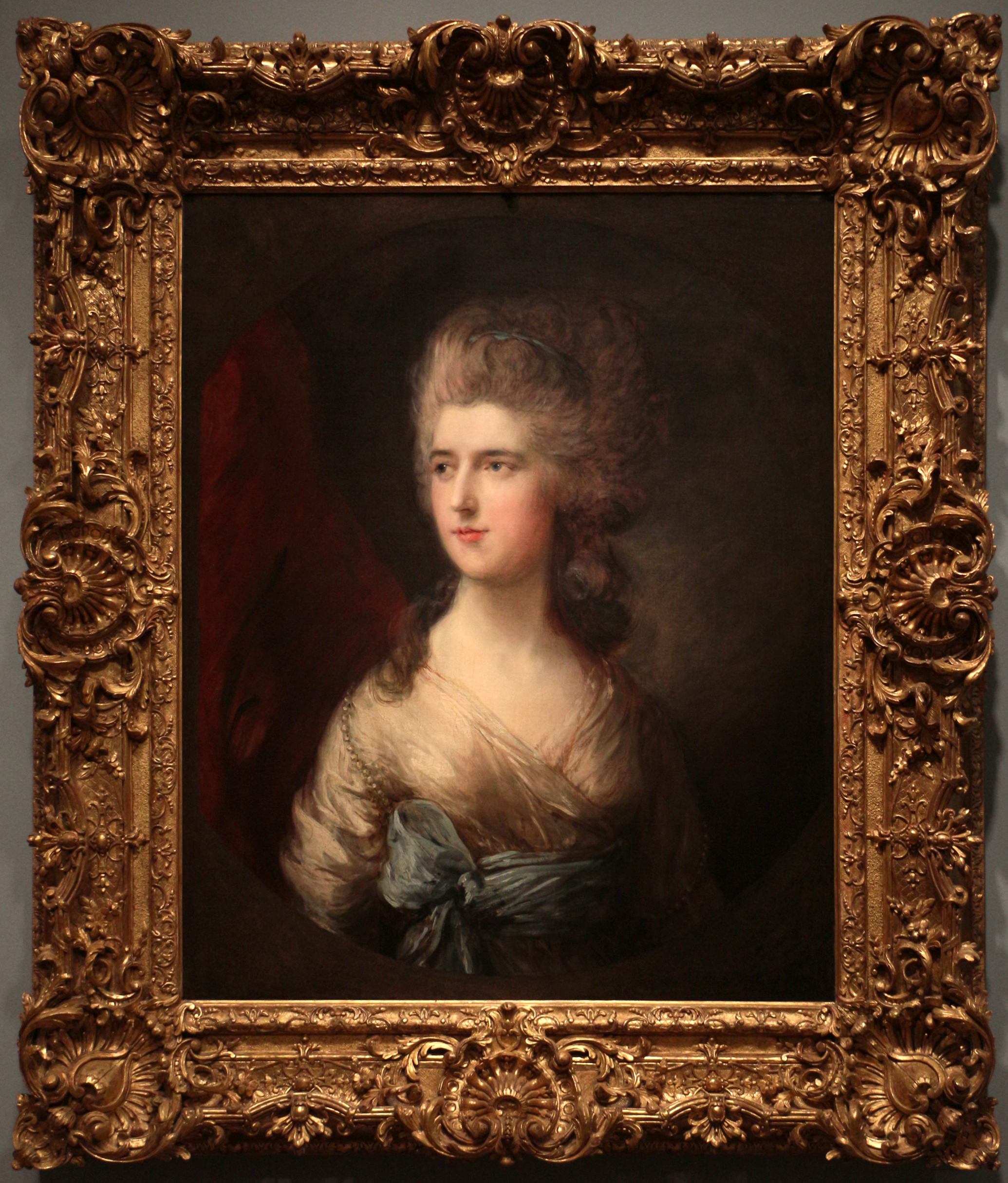 Paintings in the Detroit Institute of Arts